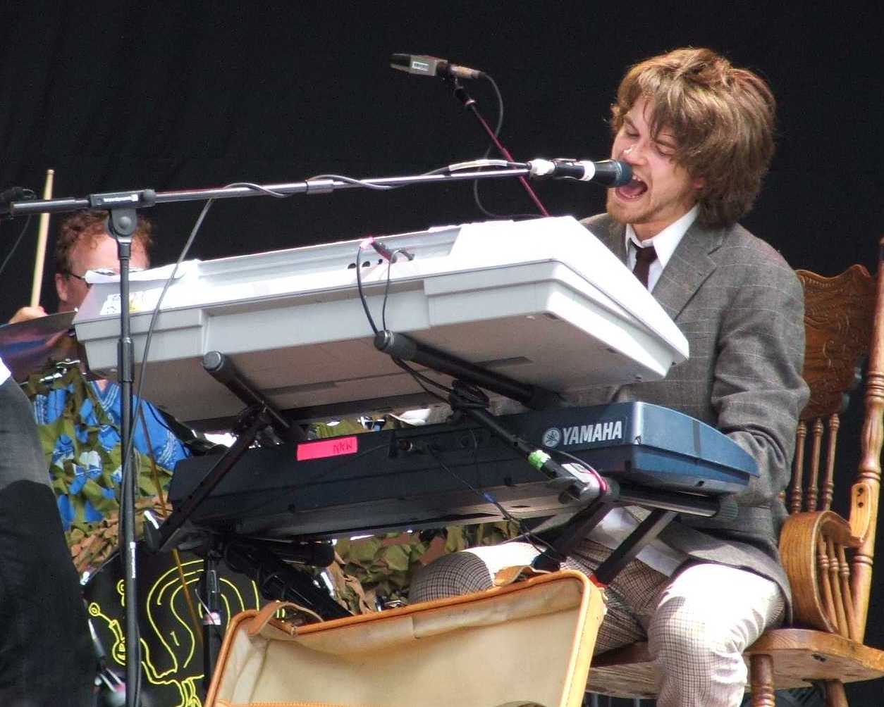 Guillemots lead singer Fyfe Dangerfield performing live in July 2006.